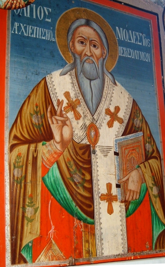 Icon of Saint Modest in Maniaki.